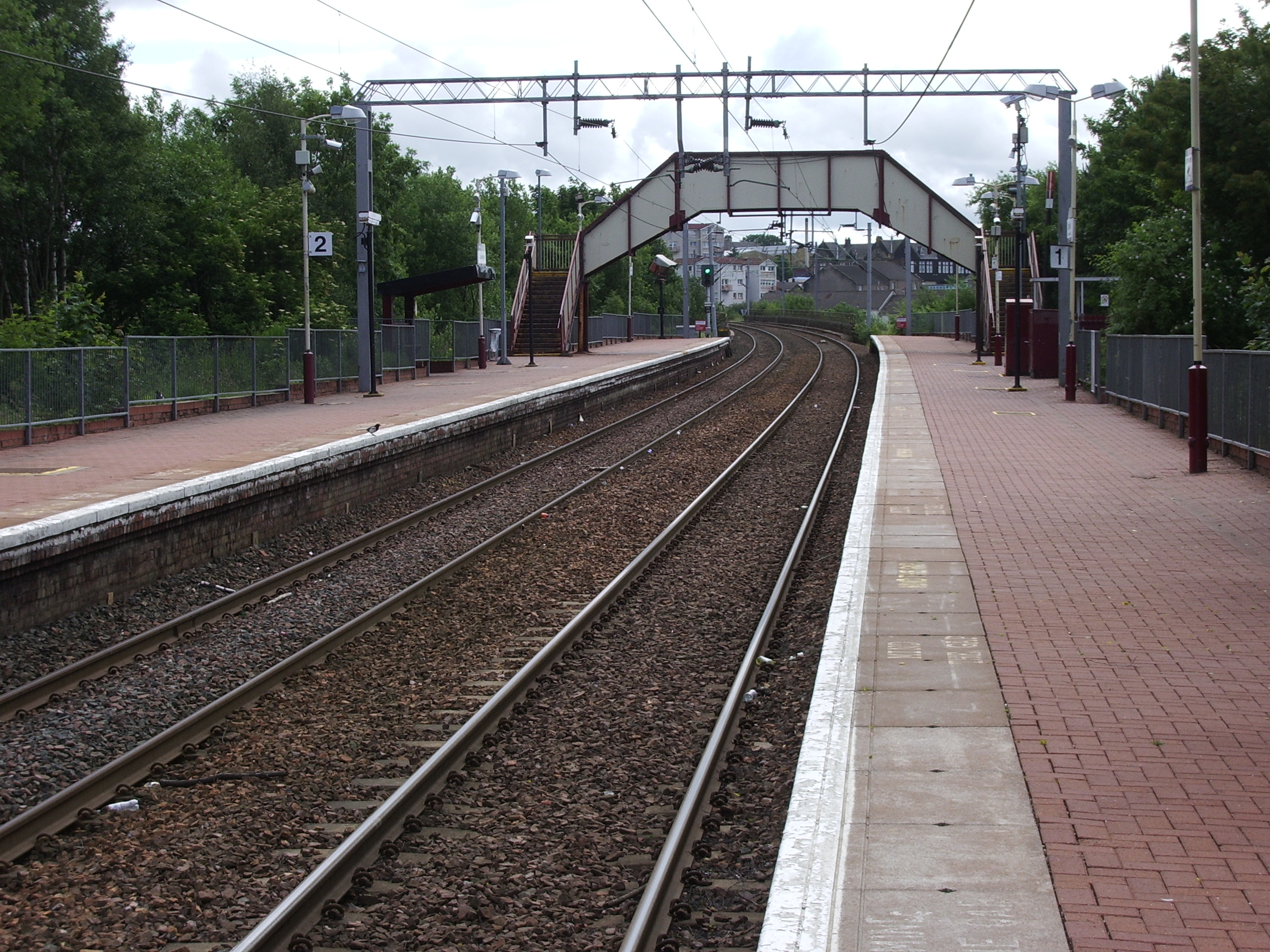 Coatdyke railway station, Coatbridge, Scotland, looking east